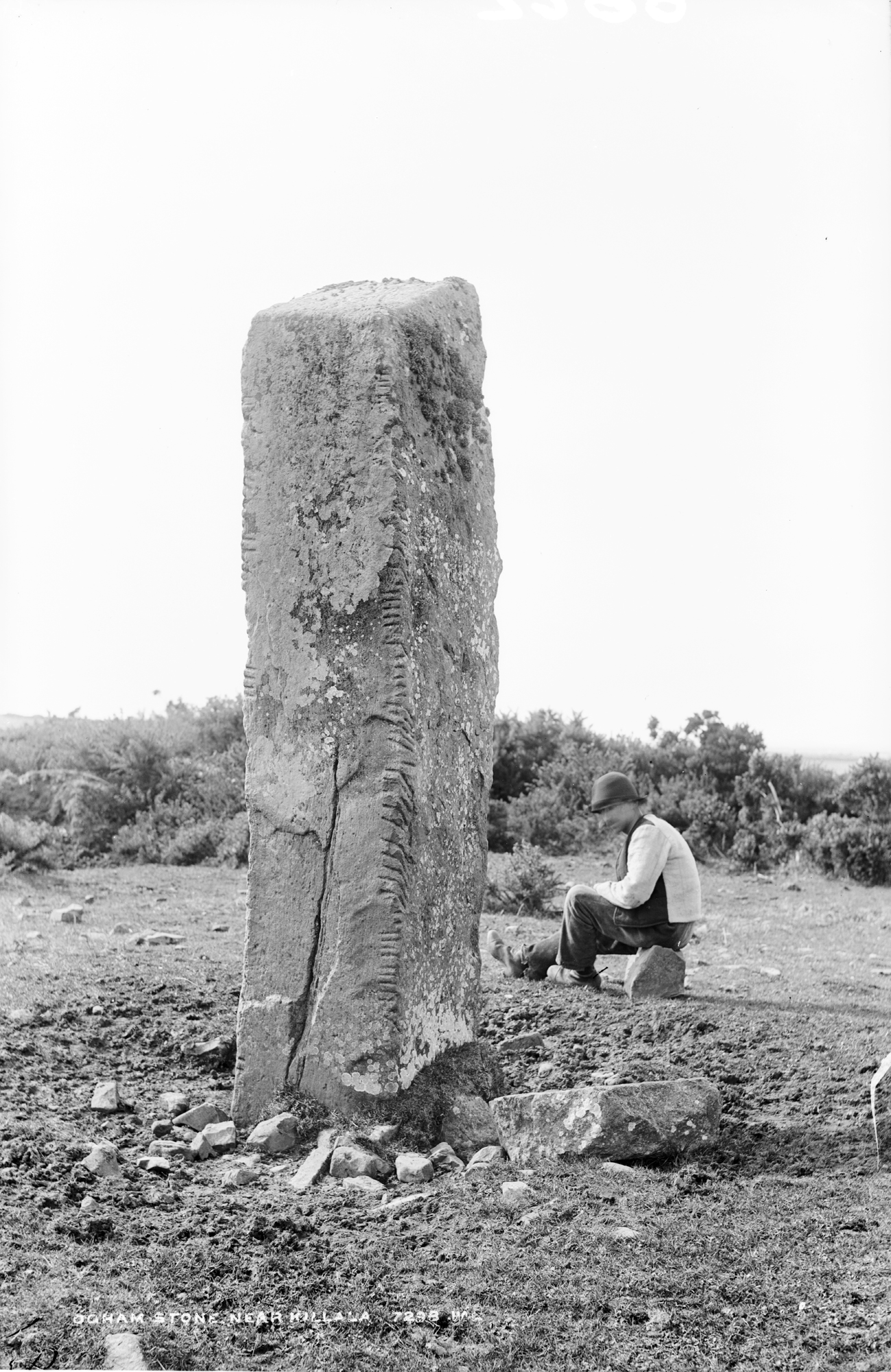 The Breastagh Ogham Stone (CIIC 010) is near Killala, Co. Mayo. Promised to issue virtual sticky buns to anyone who could tell us what it says, and so those wholly imaginary sticky buns have gone to Niall McAuley... Anewman1976 pointed out that we've been somewhat overlooking Mayo, so over the next couple of weeks there'll be a sprinkling of Mayo photos to redress the balance... Date: 1890s?? NLI Ref.: L_CAB_07298